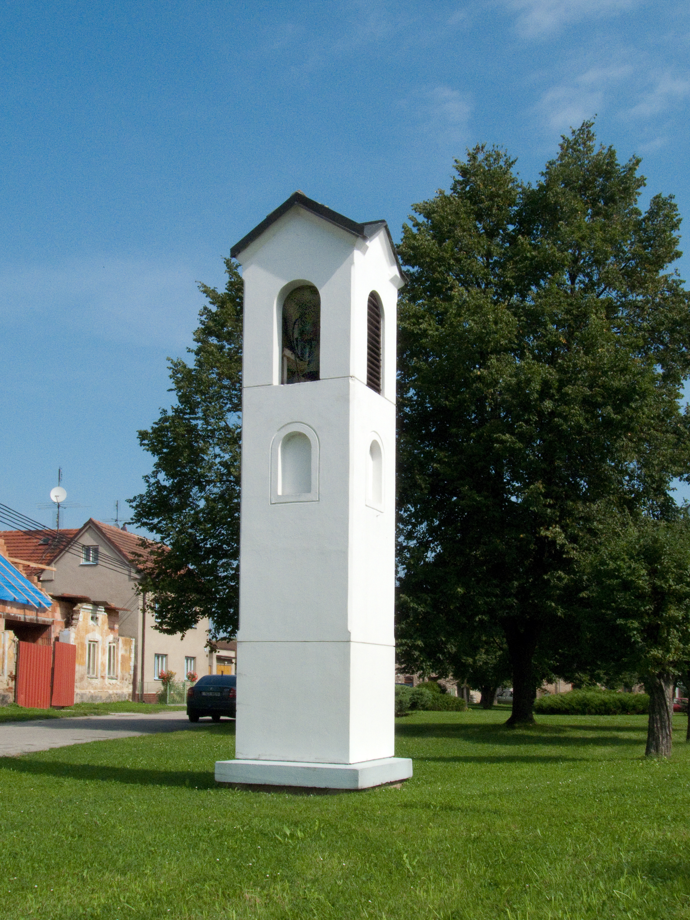 Bell tower on the village green in Žabovřesky, České Budějovice district, Czech Republic